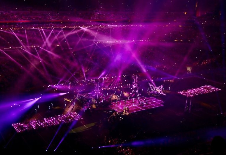 View of the stage during the Super Bowl LI halftime show with Lady Gaga performing the song "Just Dance".